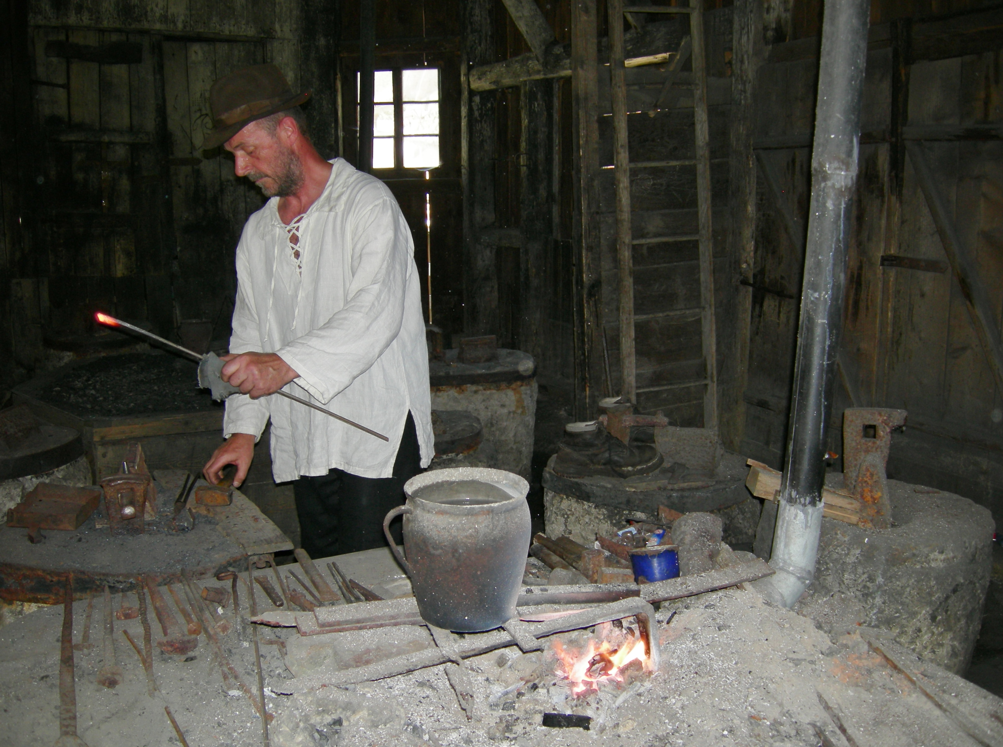 Vigenjc Vice